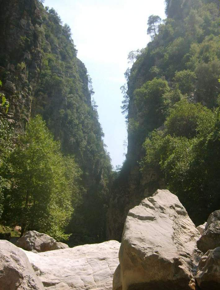 Boğazpınar